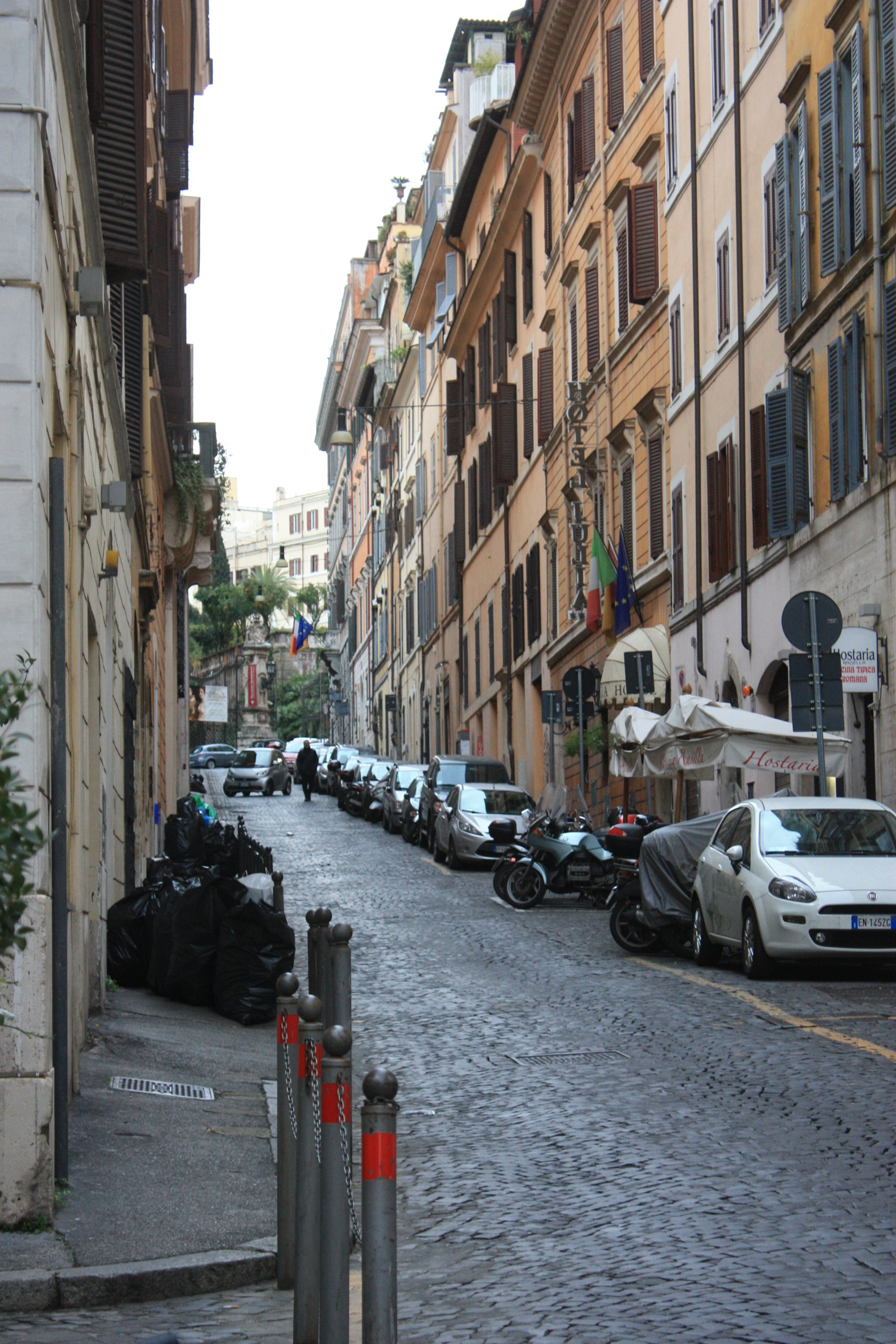 Rome, the street Via Rasella